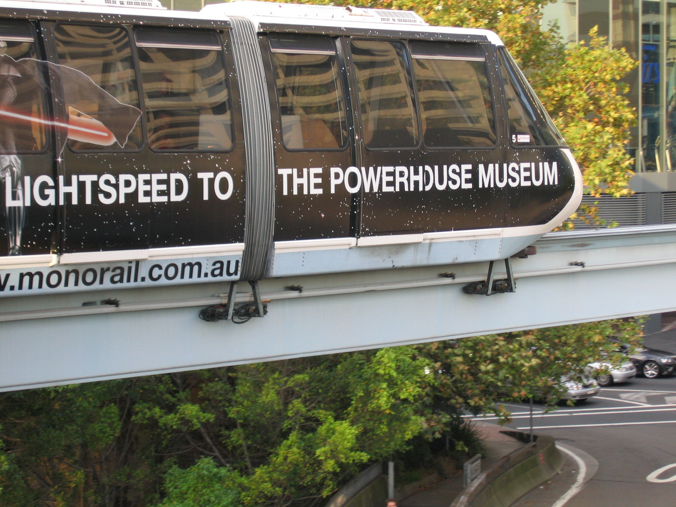 Sydney monorail, electric conductor